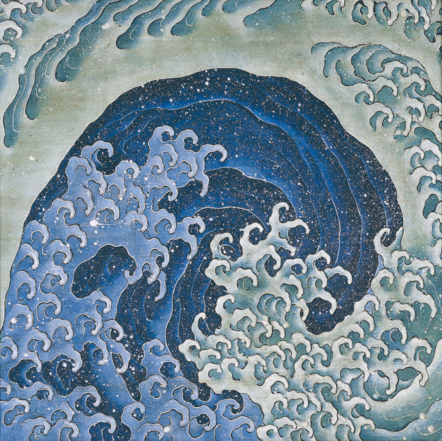 Ceiling painting by Hokusai, Hokusaikan Museum, Japan.